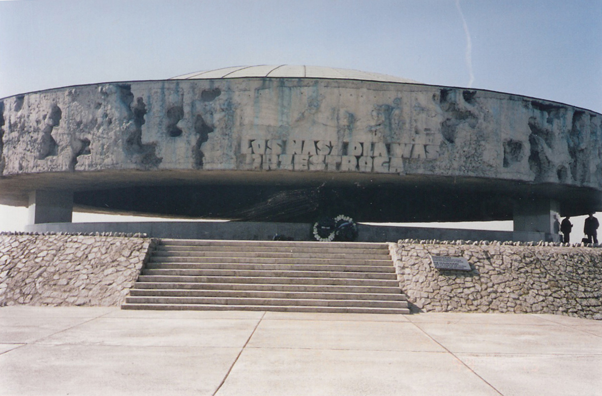 majdanek memorial